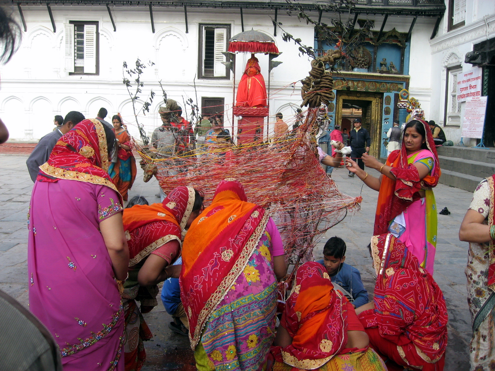 Women preparing the Holika Dahan bonfire at Basantapur, Kathmandu. Nepal.